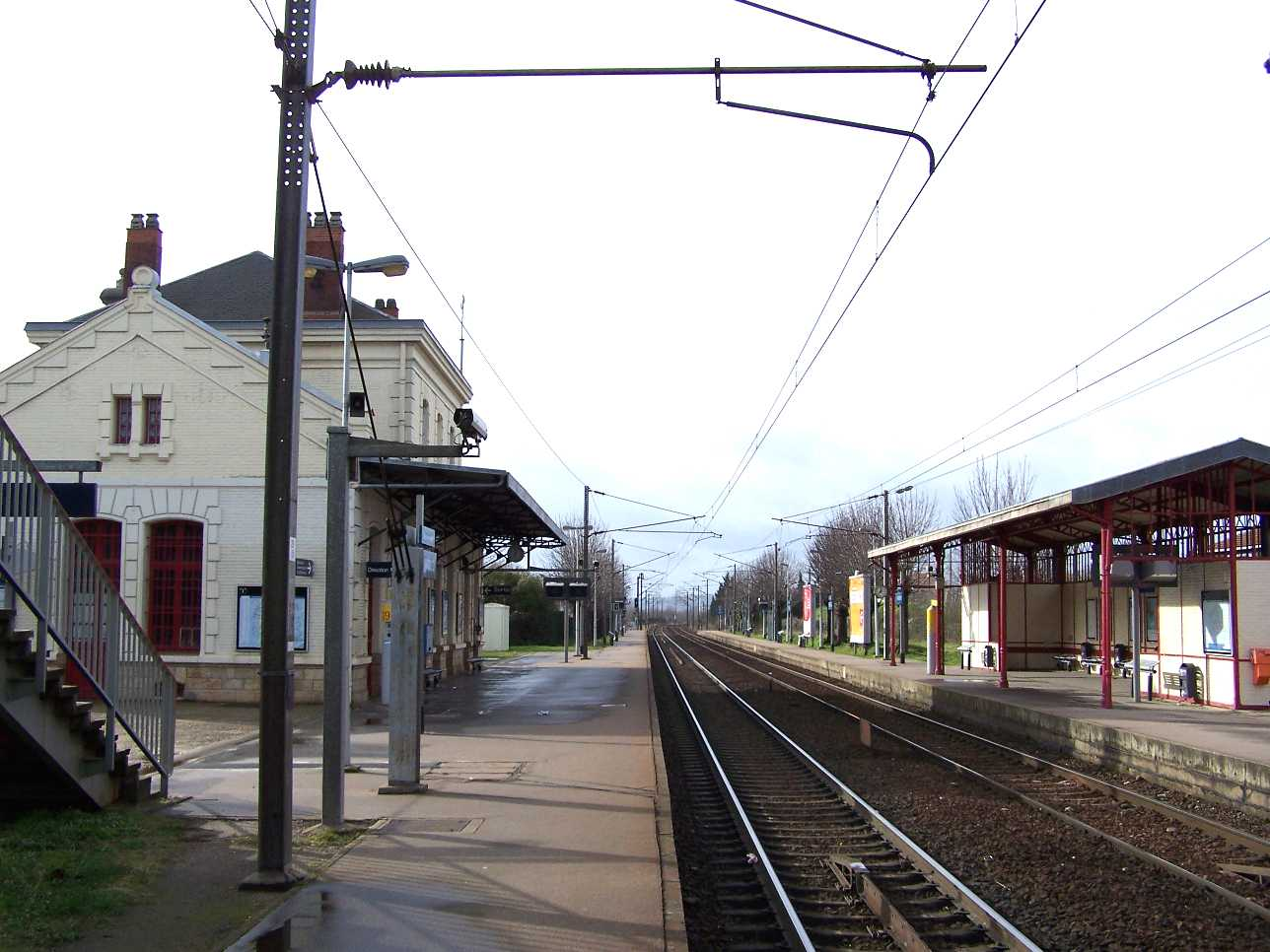 Railway station of Andrésy (Yvelines, France)